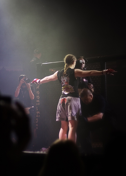 Taken at the Strikeforce Challengers MMA show at the Showare Center in Kent, WA.